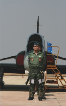 Hawk Operational Training Squadron